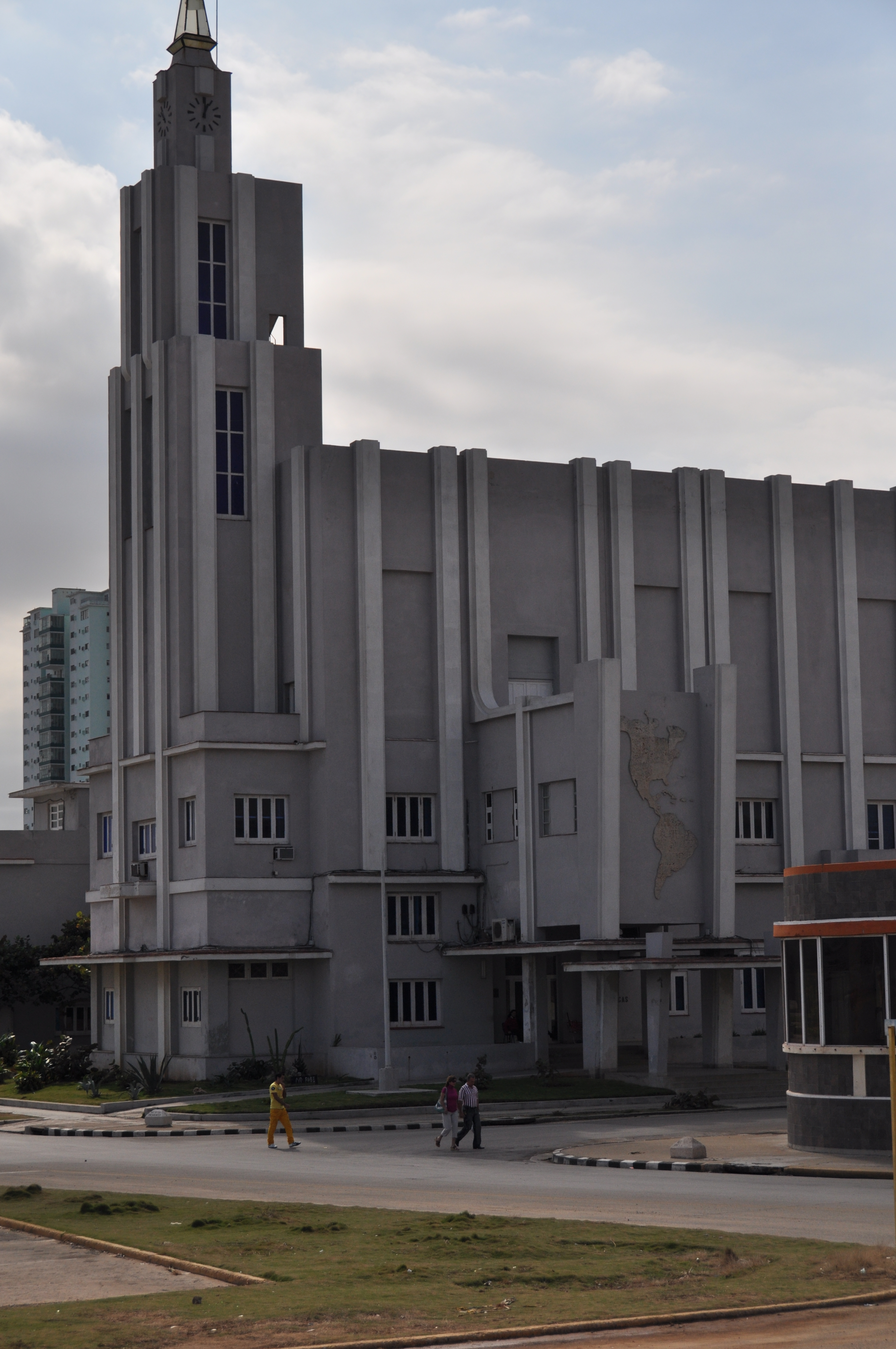 Casa de las Américas building in Havana